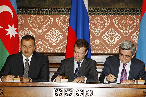 MEIENDORF CASTLE, MOSCOW OBLAST. With President of Azerbaijan Ilham Aliyev and President of Armenia Serzh Sarkisian